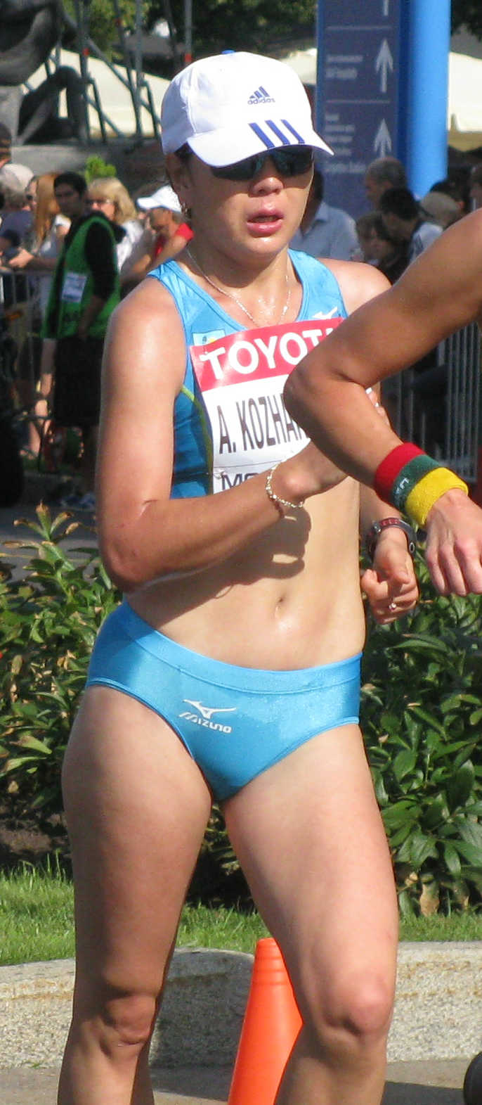 Ayman Kozhakhmetova in action during Women's 20 kilometres walk at the 2013 World Championships in Athletics